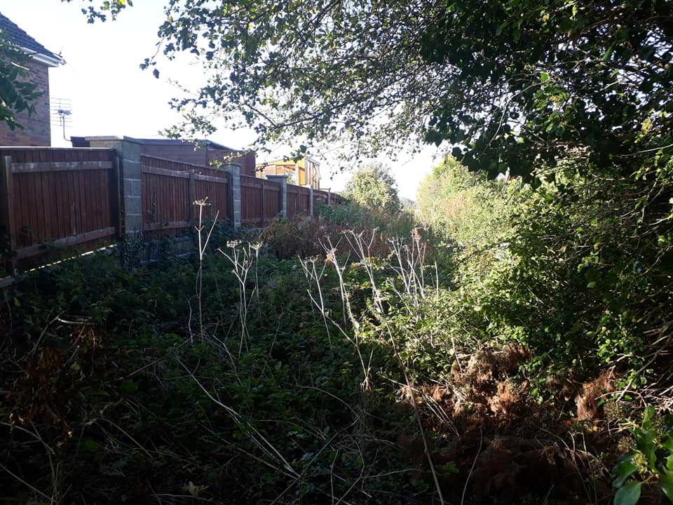 Former platform and overgrown trackbed at Willoughby railway station.